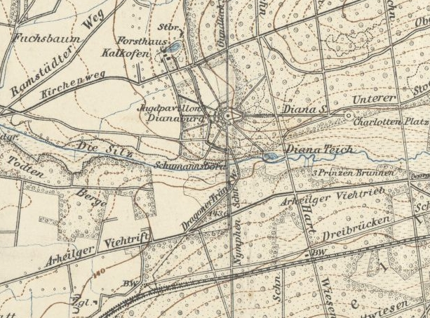 Topographic Map (Messtischblatt) showing the location of the jagdschloss of Dianaburg north of the city of Darmstadt, Hesse, Germany, within the Arheilgen district of Darmstadt. Part of Sheet 3441 "Messel". As the entire sheet does not show any trace either of the switching yard or the repair shop at Kranichstein, both beeing build by the Prussian Railway between 1896 and 1898, the map is to be from before that date. Compare this 1936 map